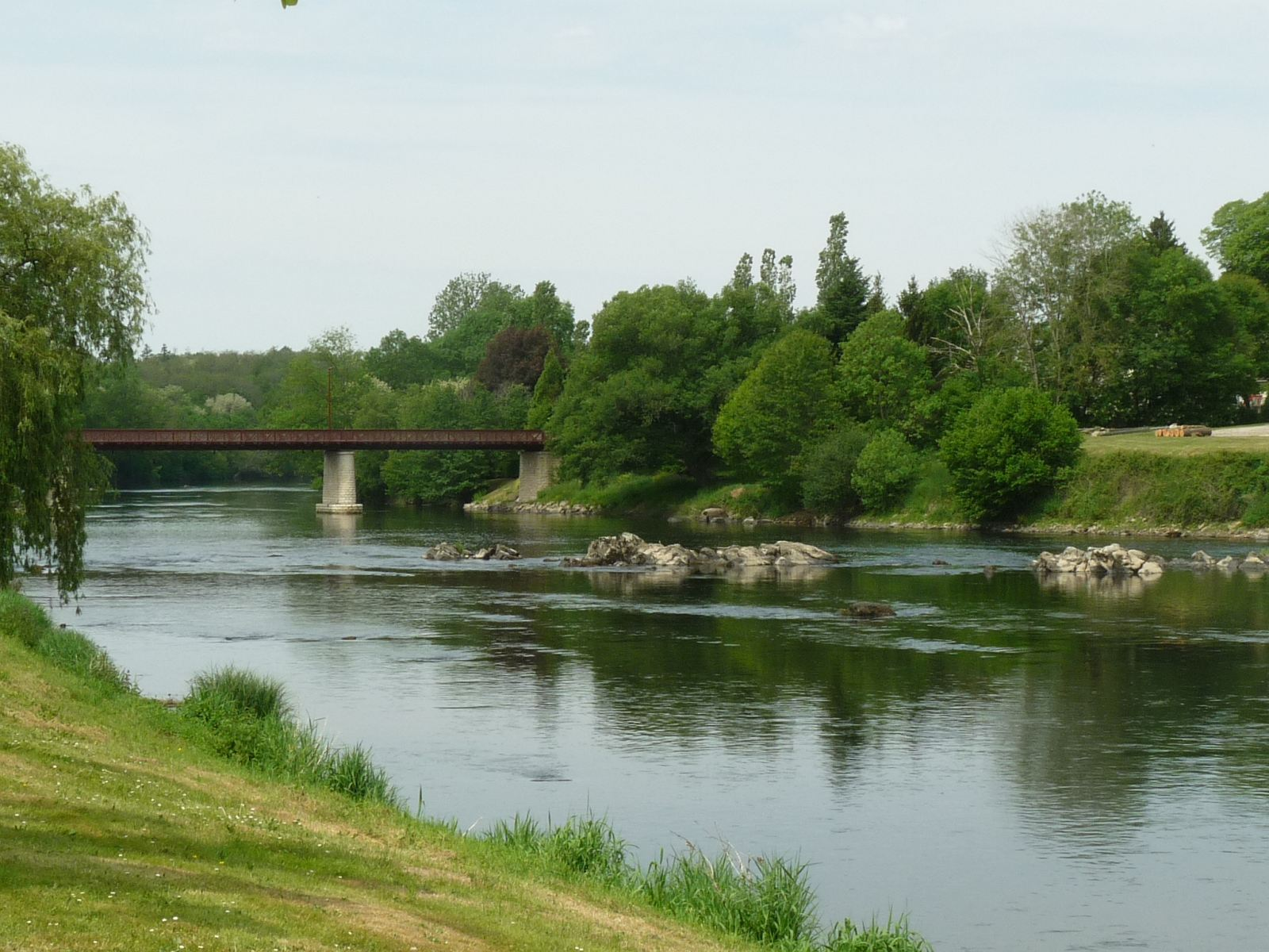 bridge of Exideuil-sur-Vienne, Charente, SW France